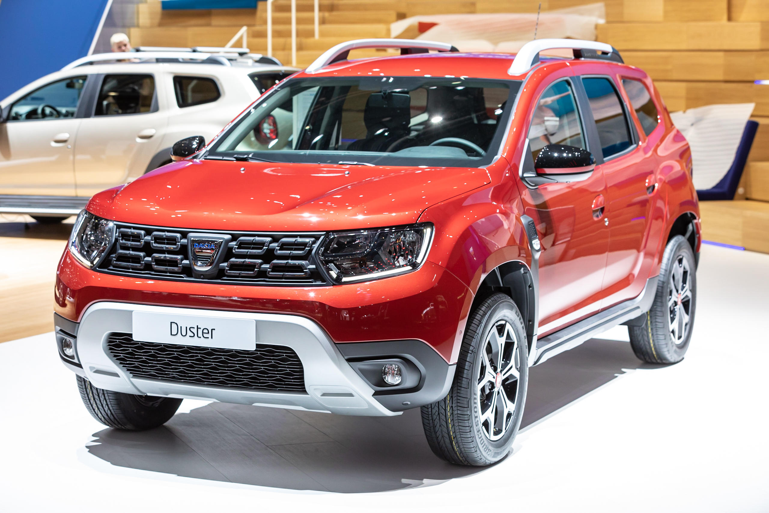 Dacia Duster II at Geneva International Motor Show 2019, Le Grand-Saconnex